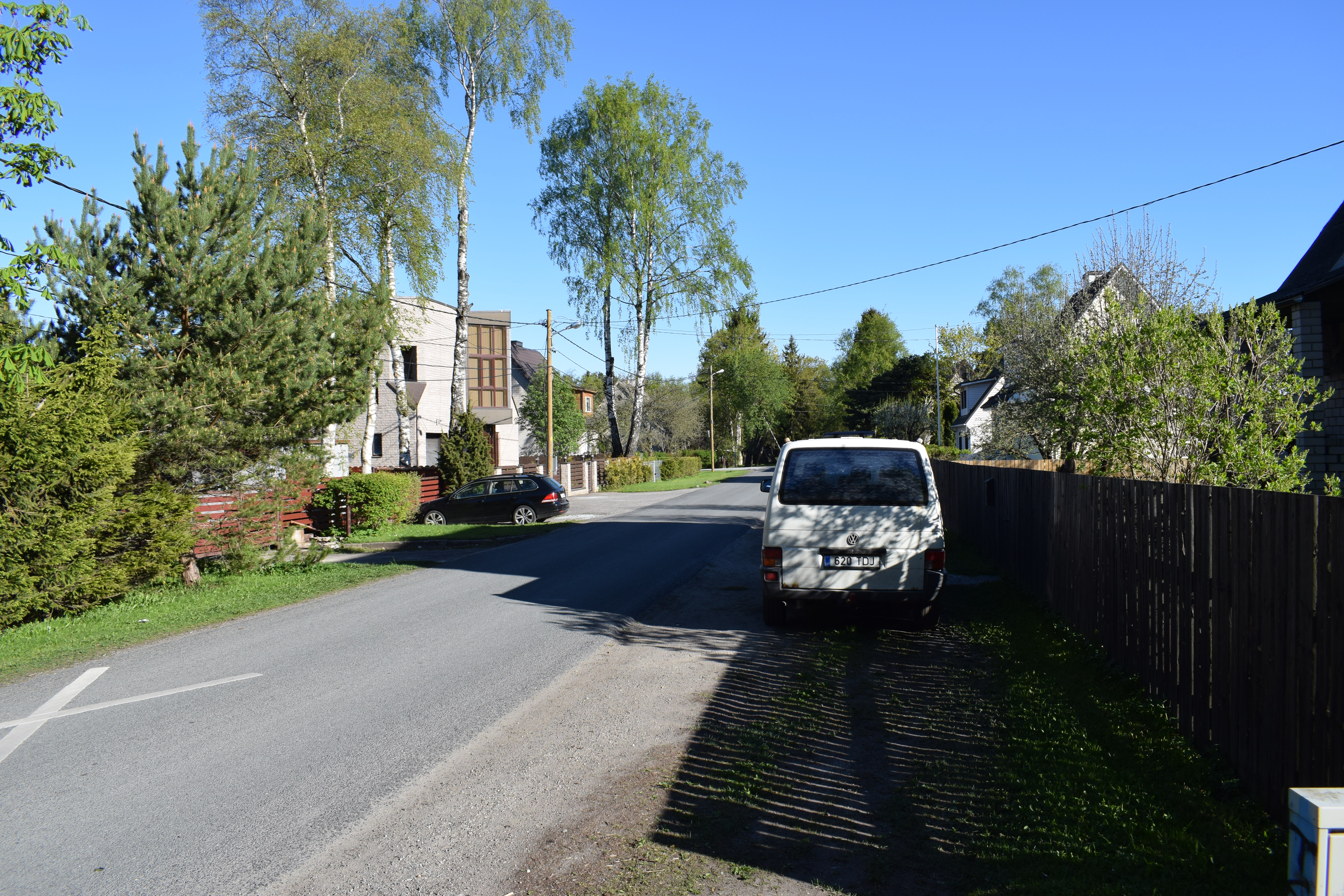 Nurmiku road